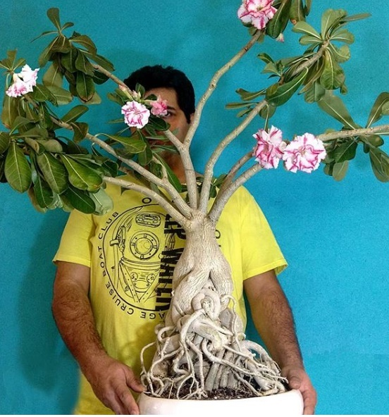 adenium desert rose